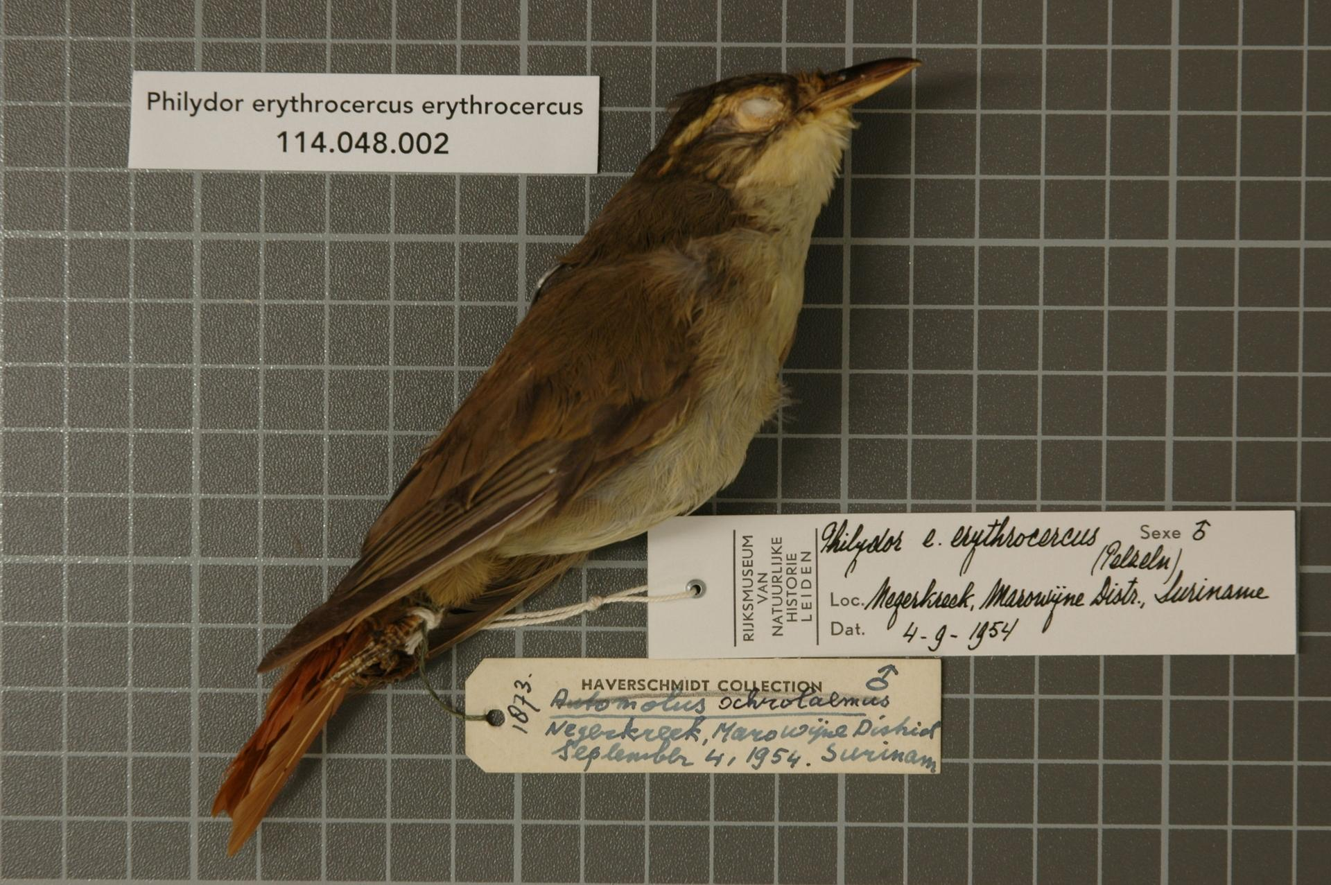 Philydor erythrocercus erythrocercus (Pelzeln, 1859)